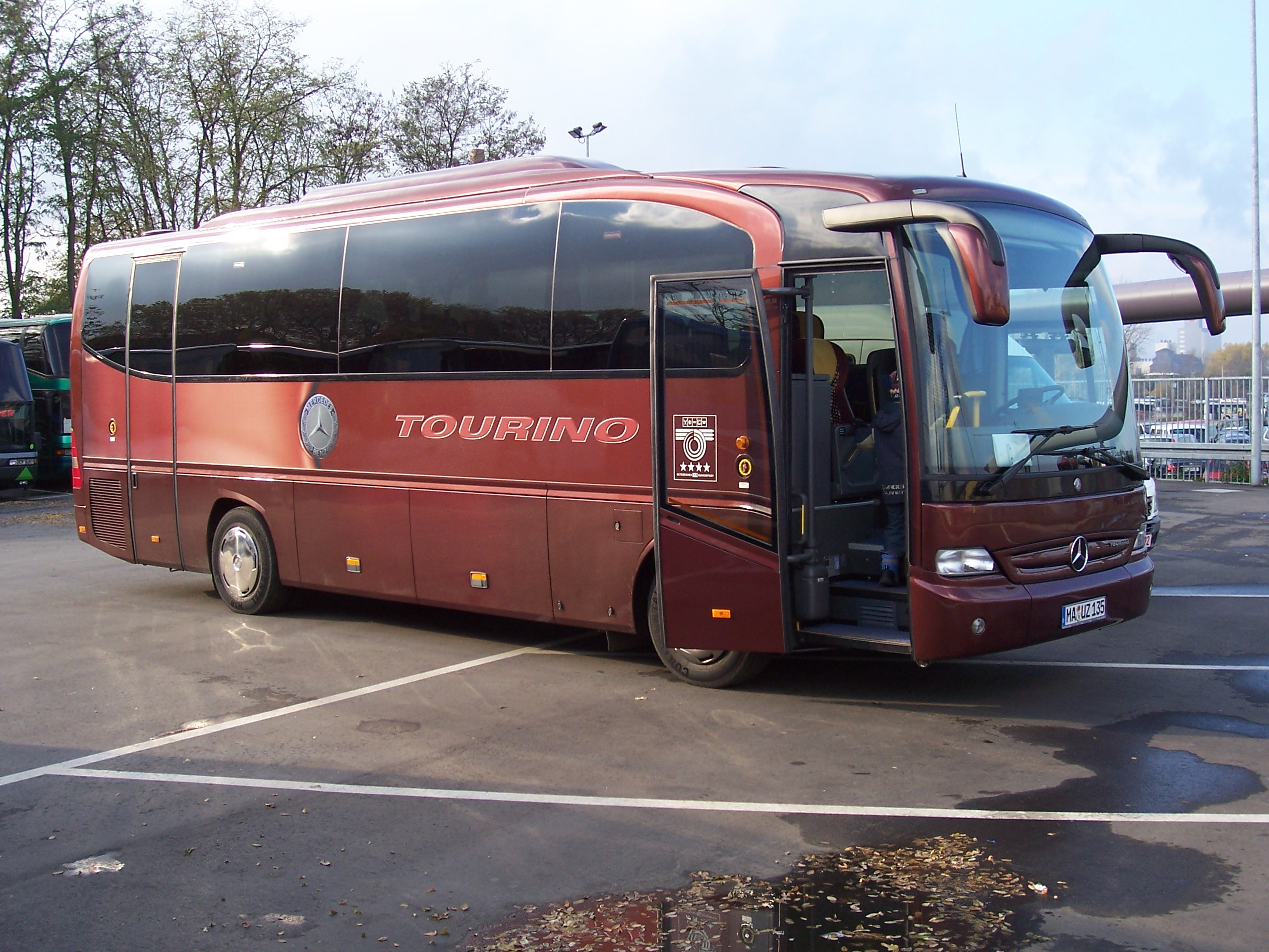 An EvoBus/Mercedes-Benz Tourino at MOT 2005 in Mannheim, Germany My own photo from 19-nov-2005